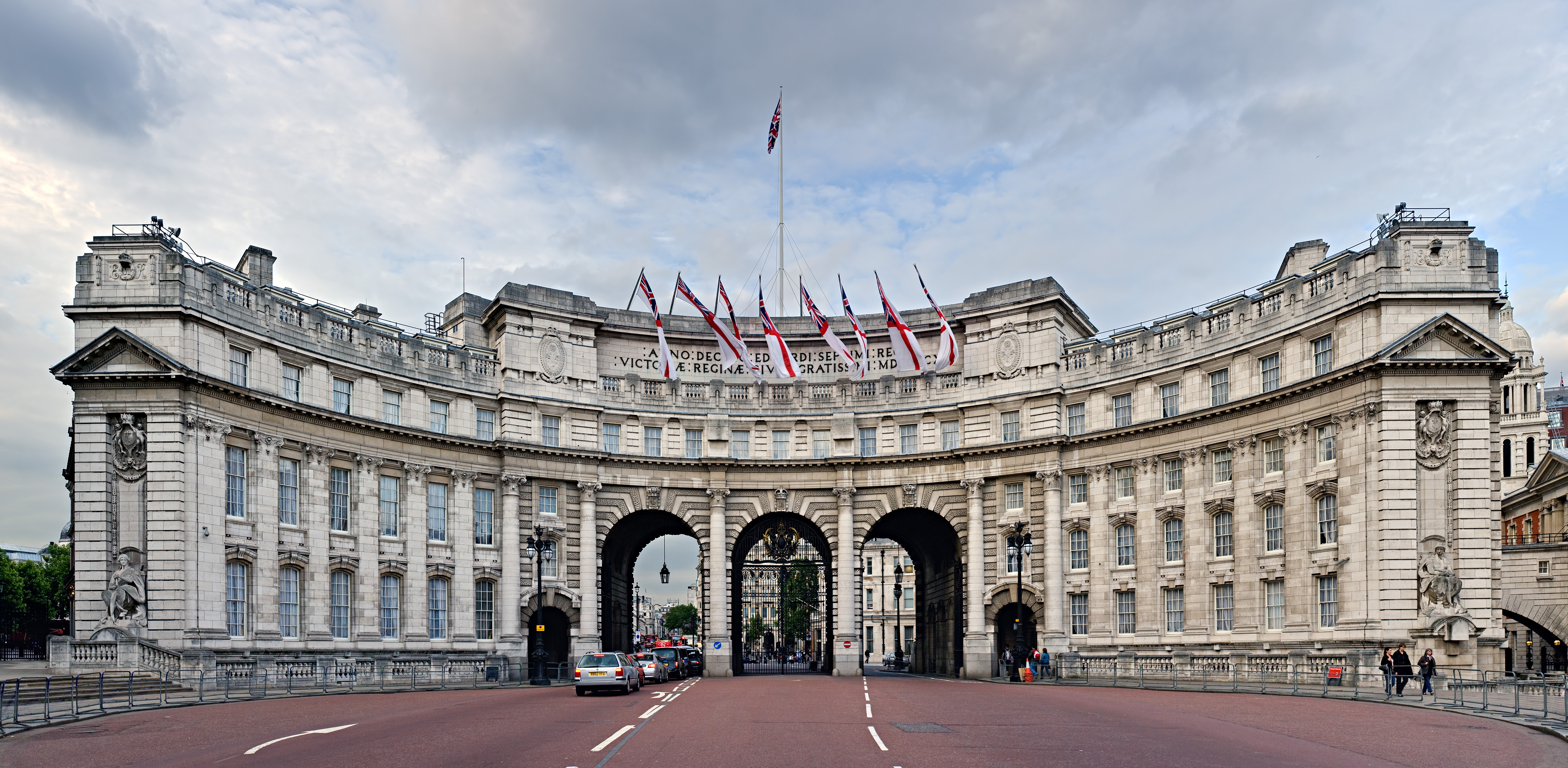 A 4 segment exposure blended image of Admiralty Arch in London, England, as viewed from the Mall facing north-east.